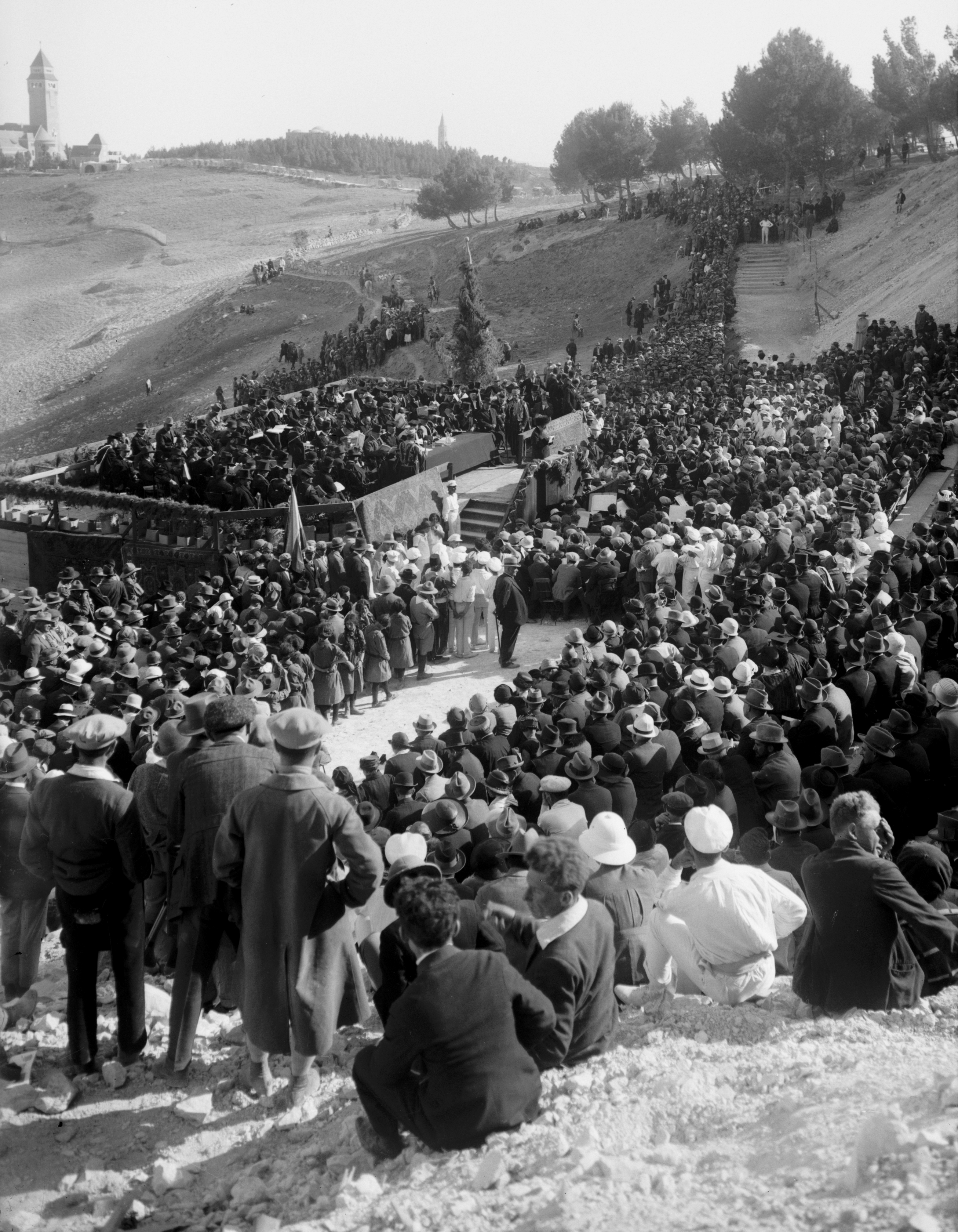 Hebrew University and Lord Balfour's visit. Opening of the Hebrew University.